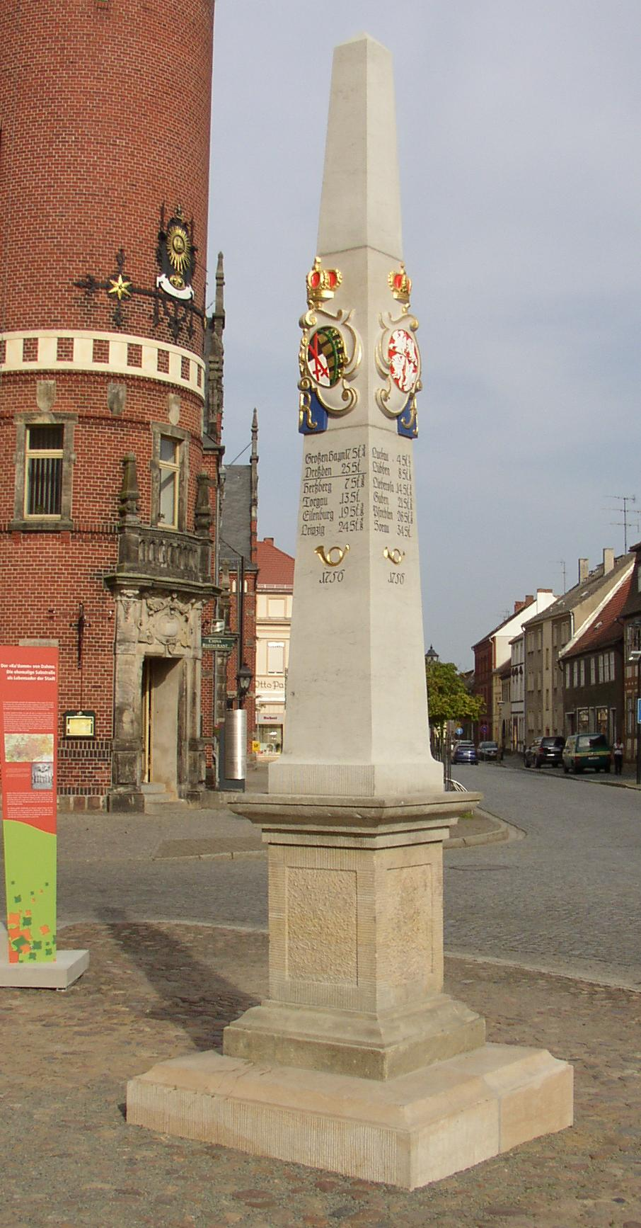 Milestone in Dahme in Brandenburg, Germany